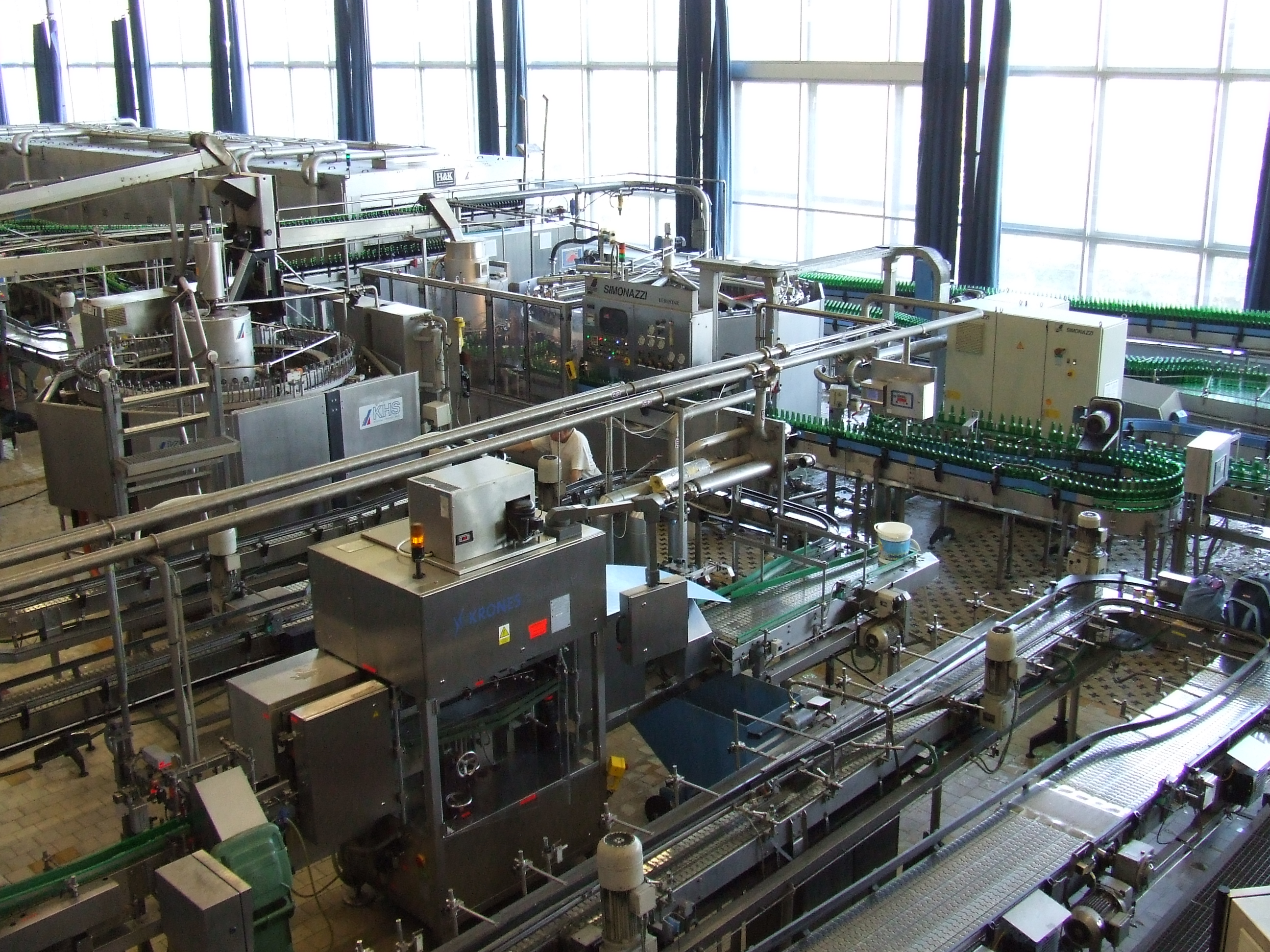 Tour of Budějovický Budvar (Budweiser Budvar) brewery in České Budějovice, Czech Republic.